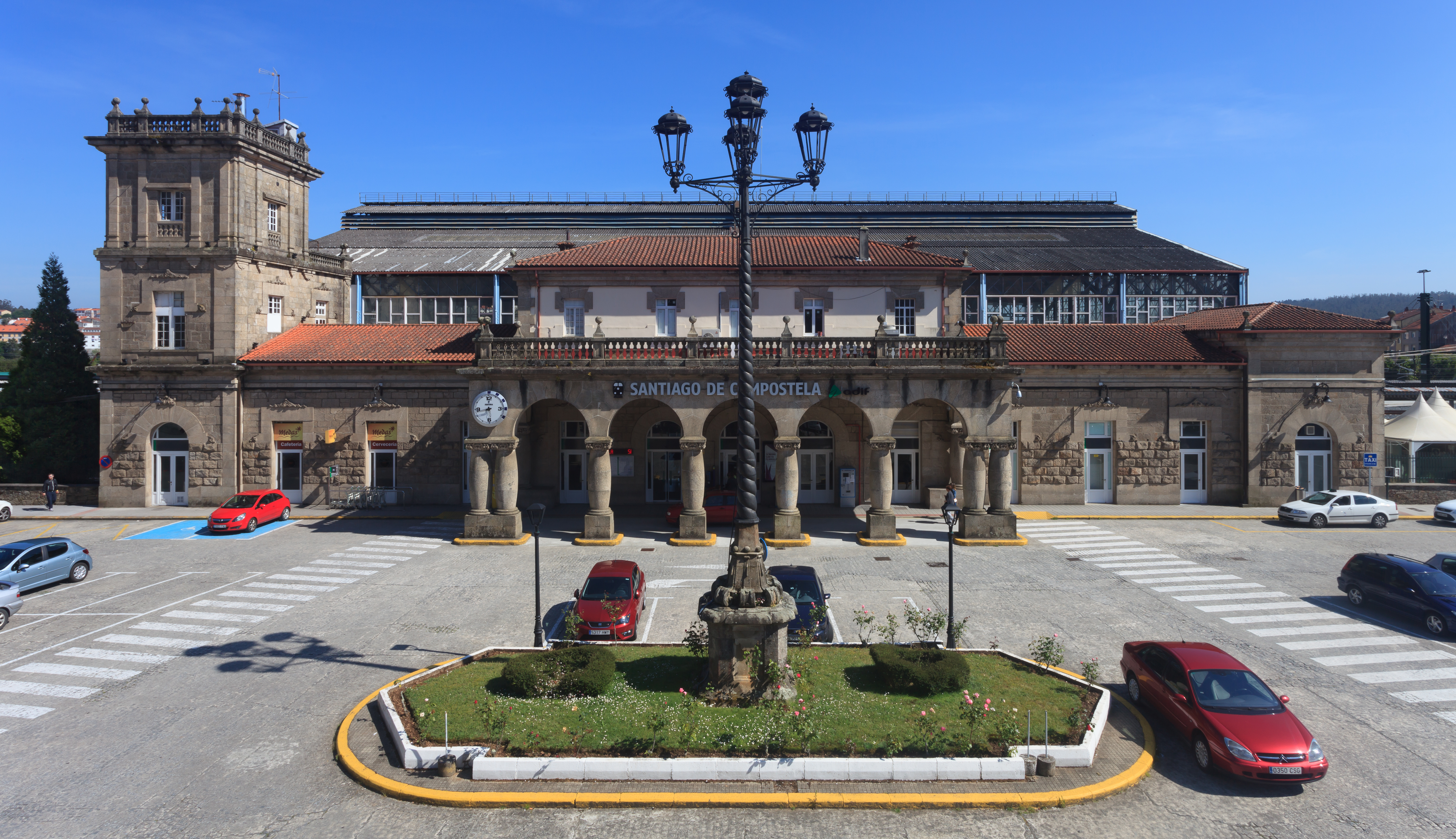 Train station, Santiago de Compostela. Galicia (Spain).